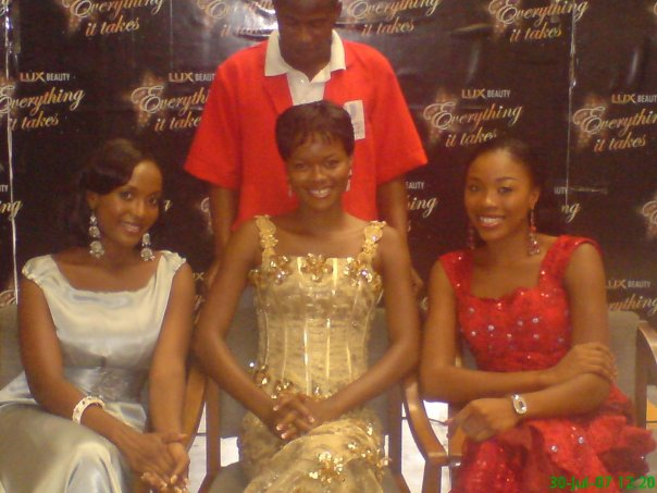 Photo of Lux Ambassadors at Unilever Nigeria Plc, 2008